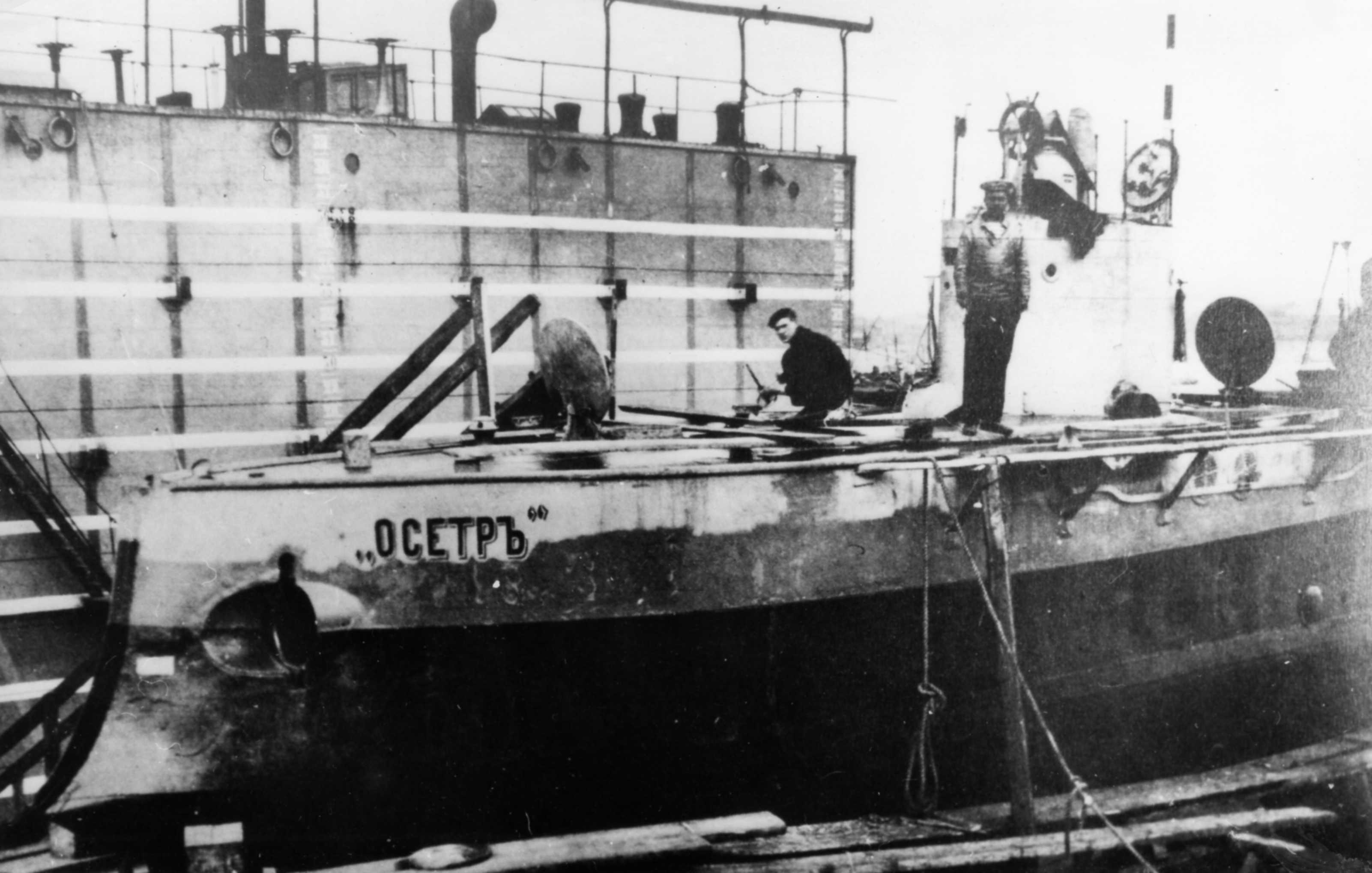 The Imperial Russian submarine «Osyotr».